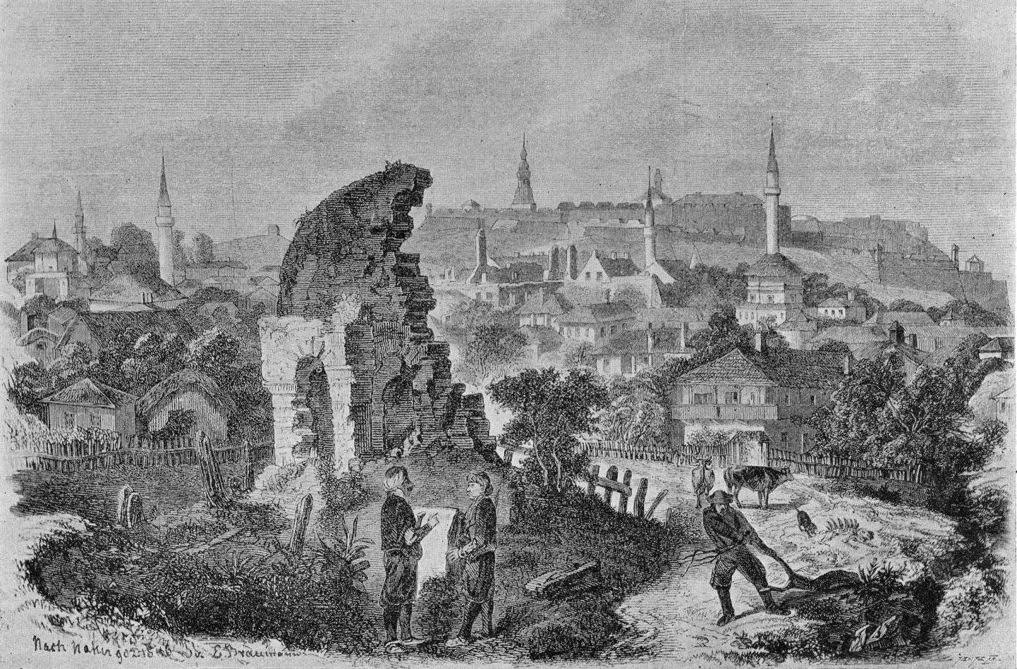 Nova iskra